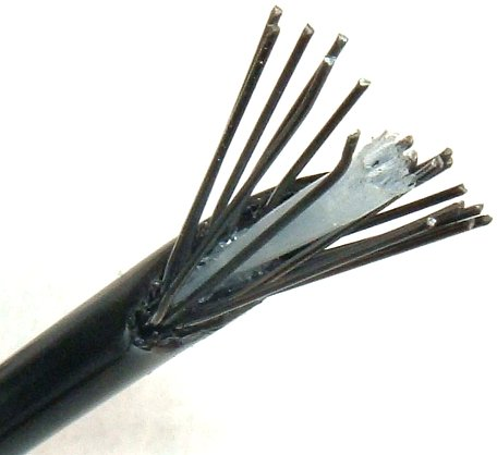 Bowden cable: steel wires and teflon housing